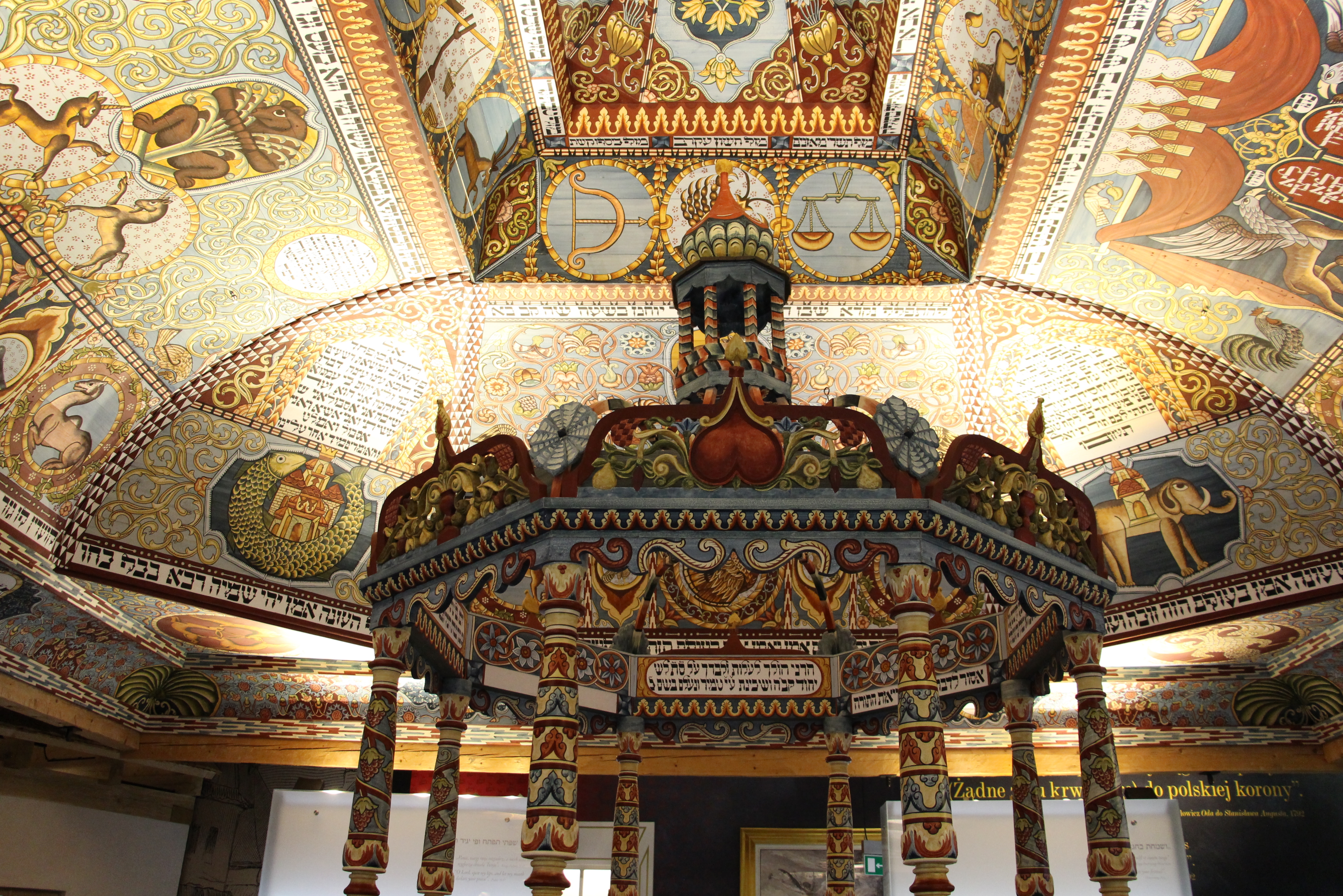 Mordechaja Anielewicza POLIN Museum of the History of Polish Jews is built on the site of the former Warsaw Ghetto. The museum features a multimedia narrative exhibition about the vibrant Jewish community that flourished in Poland for a thousand years up to the Holocaust. Arch. Rainer Mahlamäki and Ilmari Lahdelma 2007-13